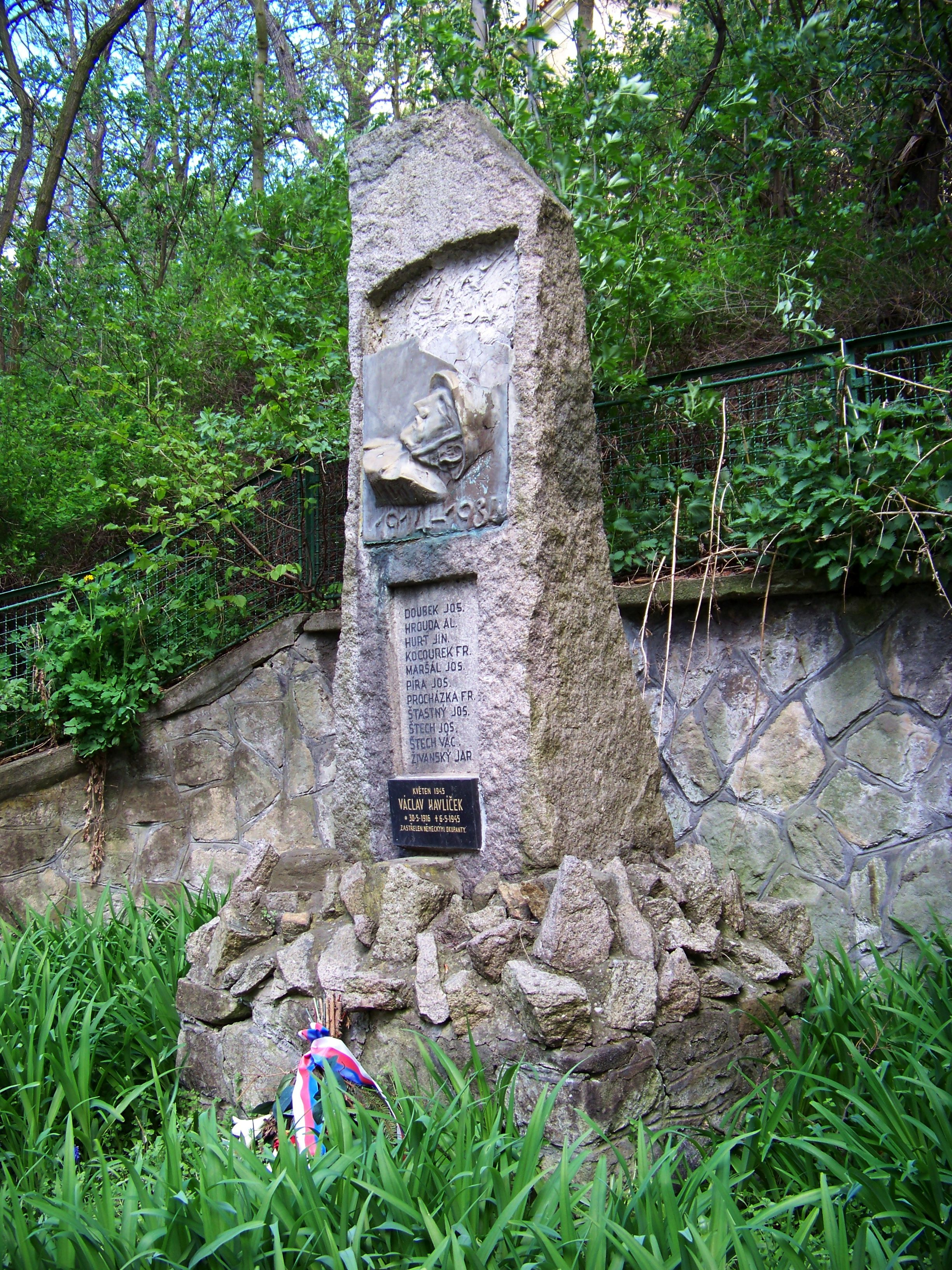 Tuklaty, Kolín District, Central Bohemian Region, Czech Republic. Akátová street, WW memorial. - Google Maps - Google Earth